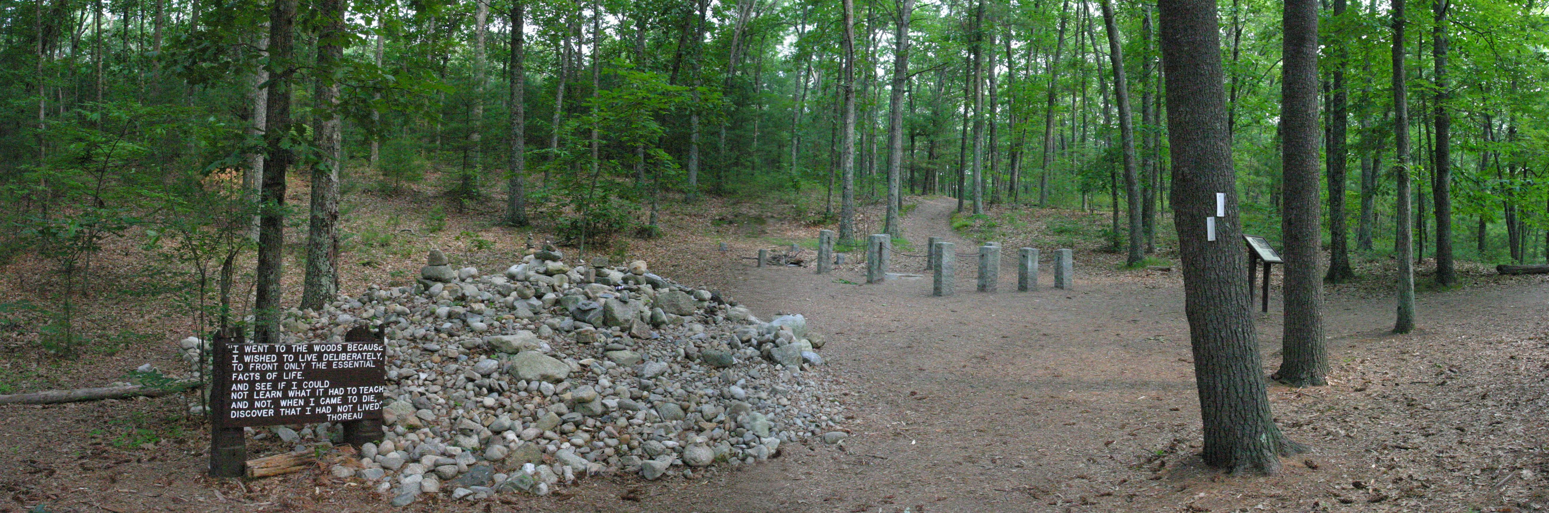 Thoreau's memorial in Walden Pond, Massachusetts (panorama).